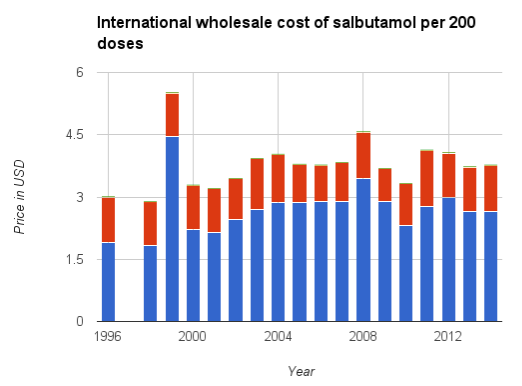 Change in international wholesale price of 200 doses of salbutamol. Numbers are here [1] Original data is here